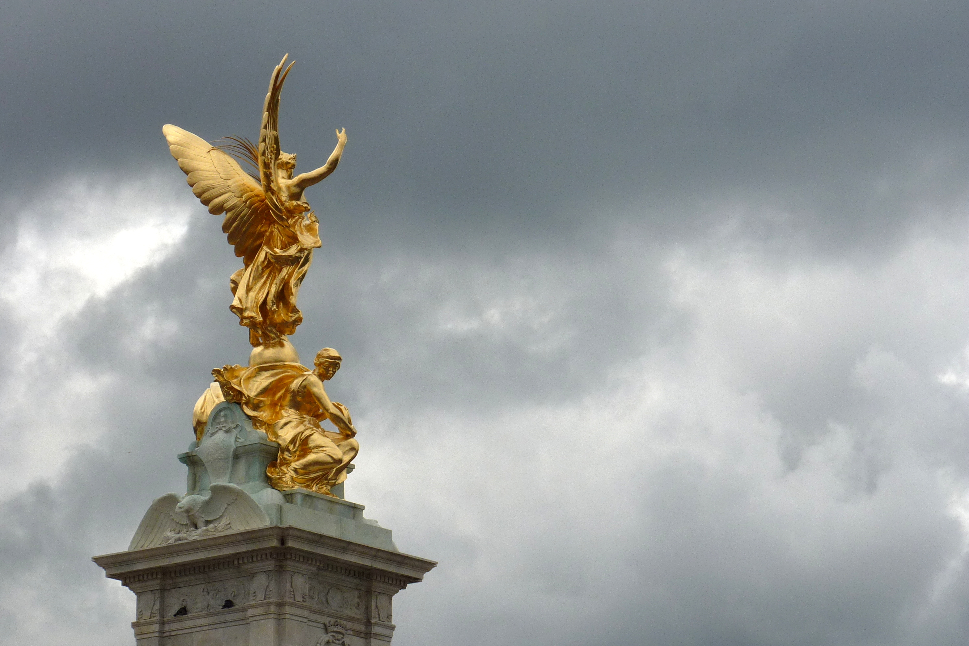 London - Golden Sculpture Outside Buckingham Palace